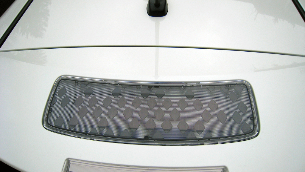 Nissan Leaf SL spoiler-mounted solar panel